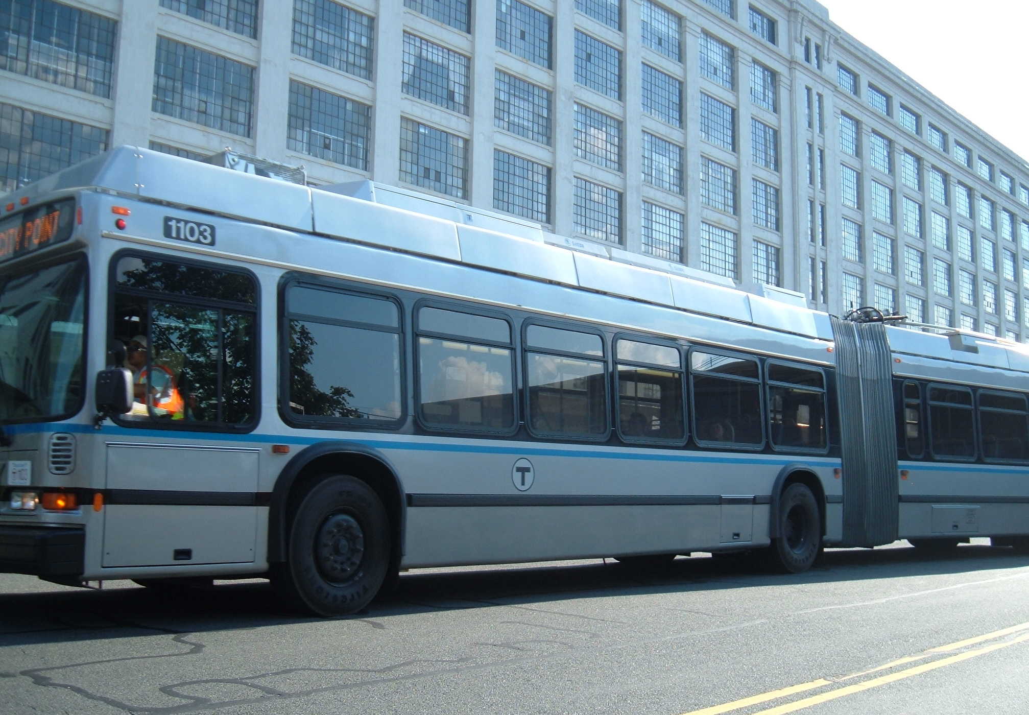 MBTA Silver Line dual-mode bus on the now-defunct SL3 City Point route turning left onto Dry Dock Avenue in front of Boston Marine Industrial Park